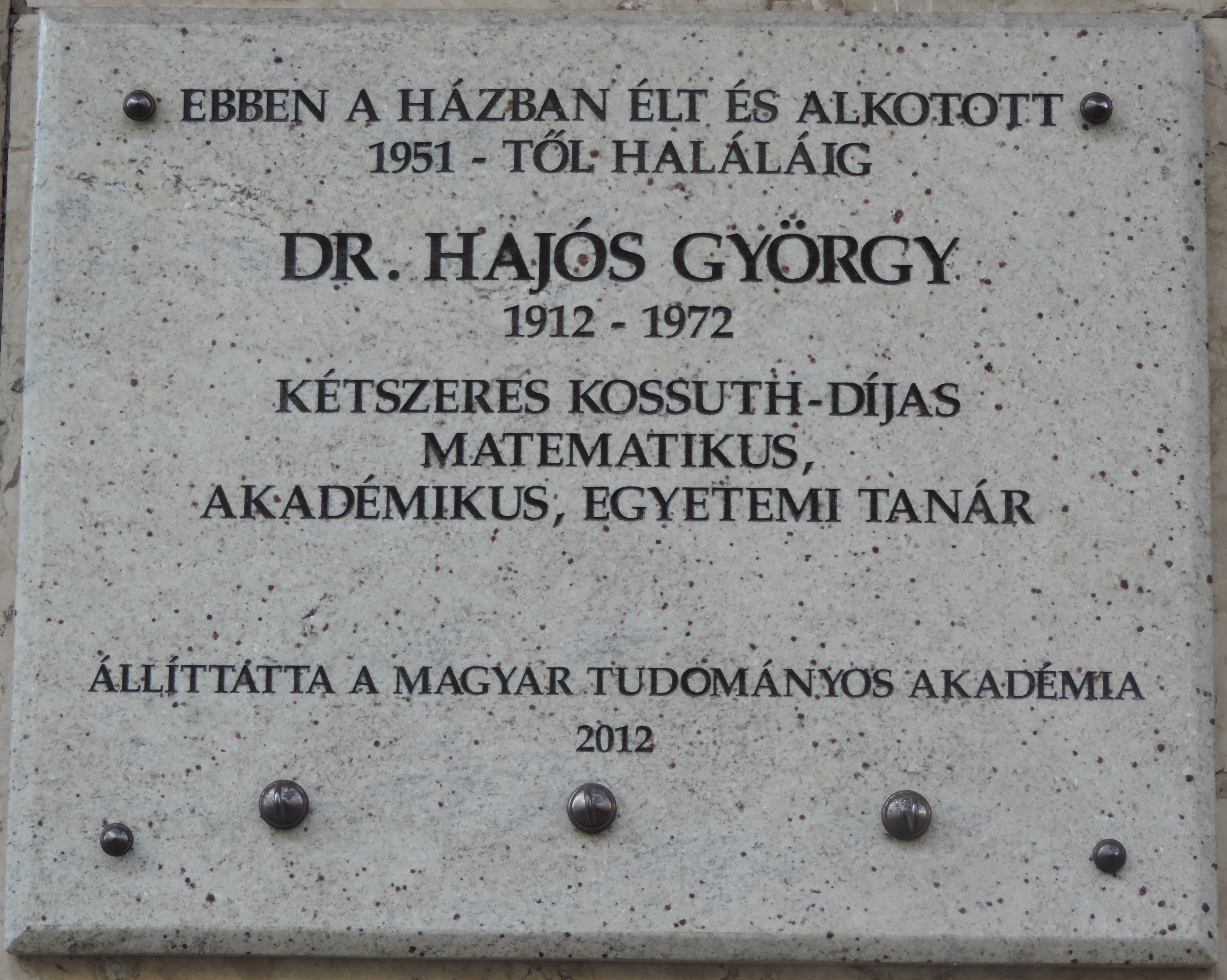 Plaque of György Hajós (Budapest District II, Margit körút No 15-17)